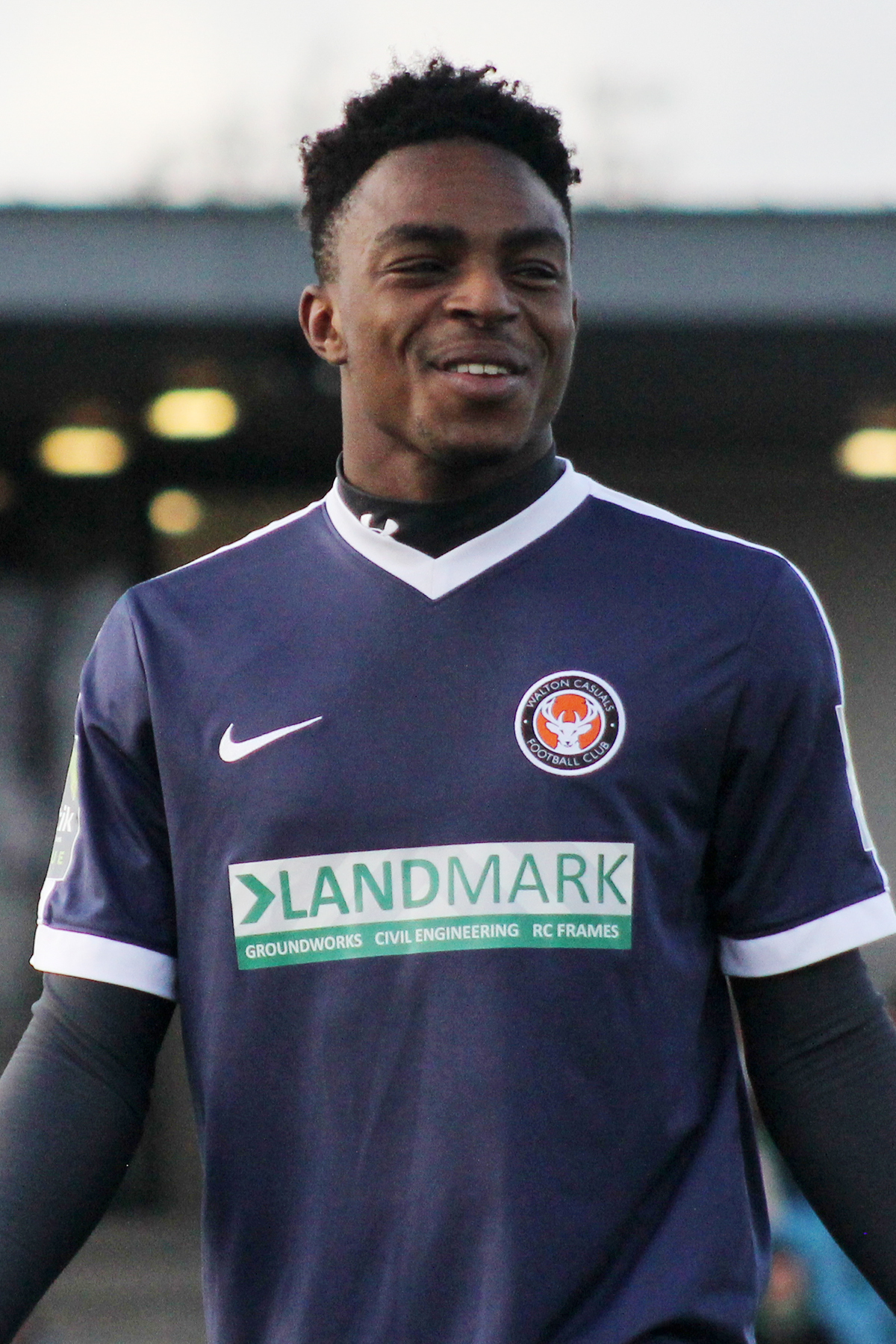 Toyosi Olusanya of Walton Casuals during the Isthmian League South Division match against Guernsey at Footes Lane Stadium, Saint Peter Port, Guernsey on Saturday 16 December 2017.